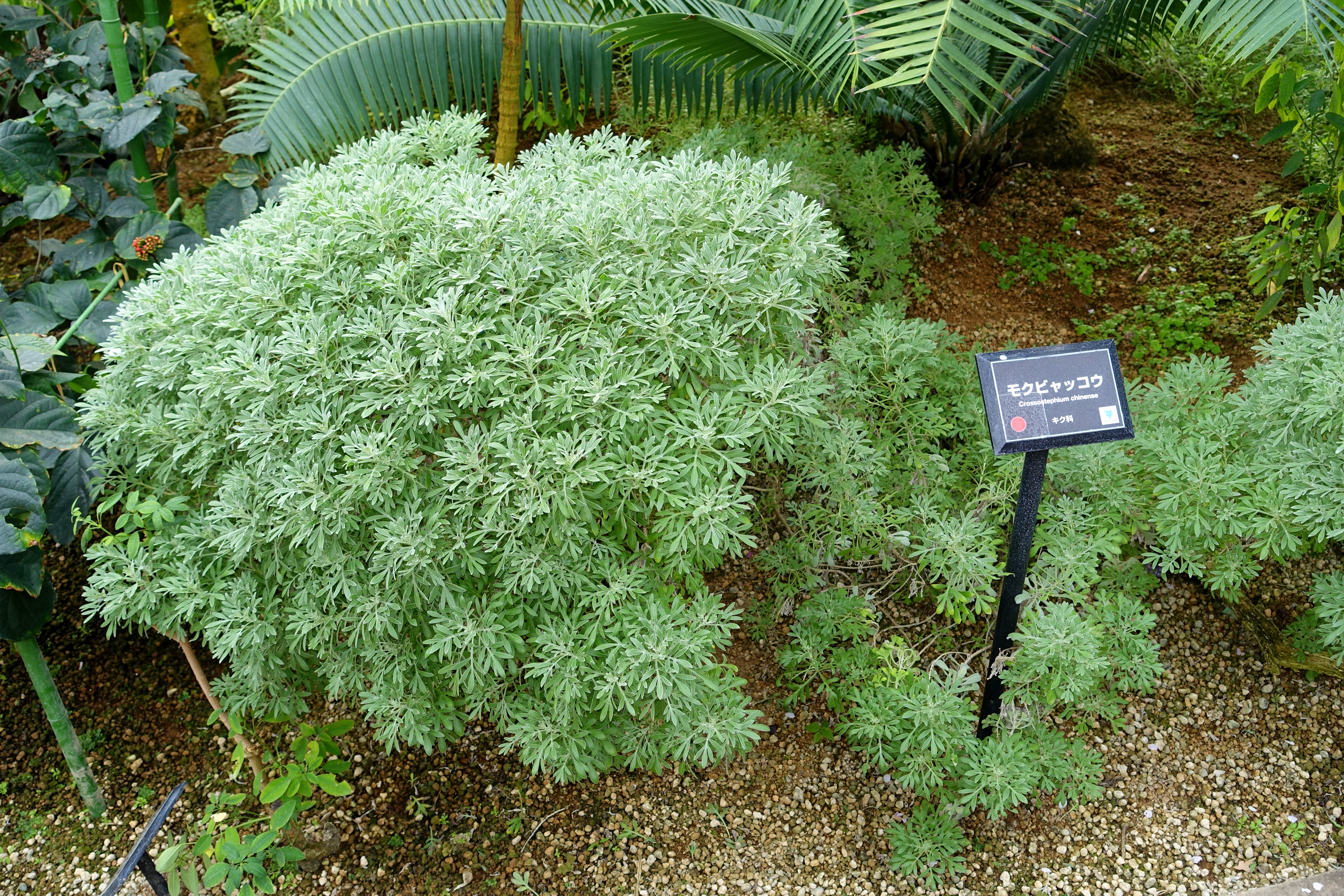 Botanical specimen in the Shinjuku Gyo-en Greenhouse - Tokyo, Japan.